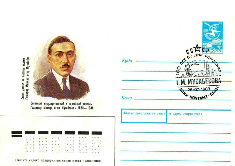 1987 Soviet envelope featuring Gazanfar Musabekov.